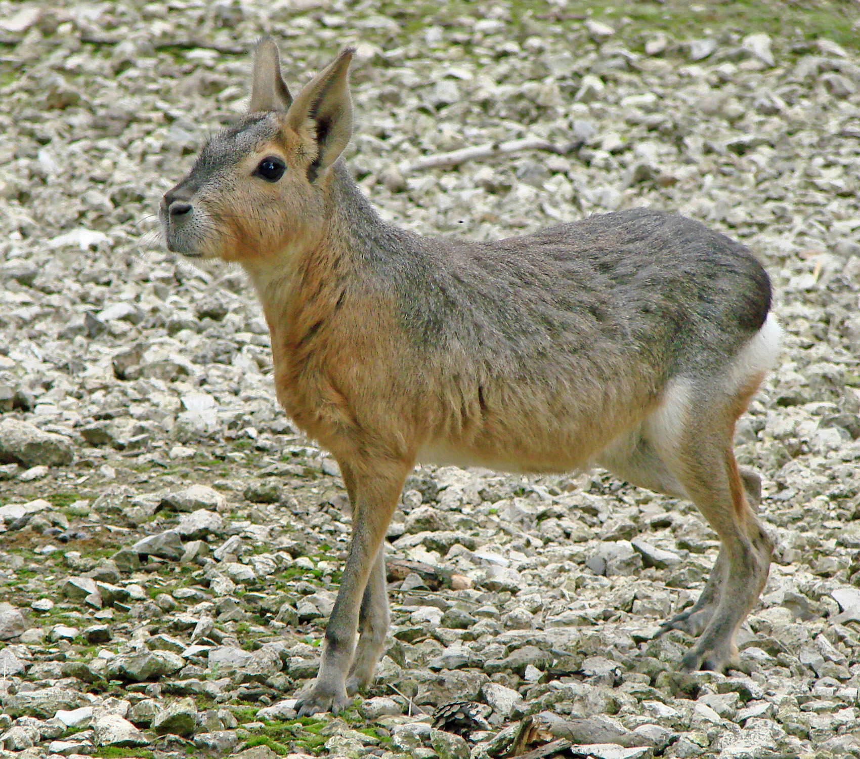 Mara (Dolichotis patagonum). Thoiry Zoo.The original image has been modified by lightening shadows and cropping.